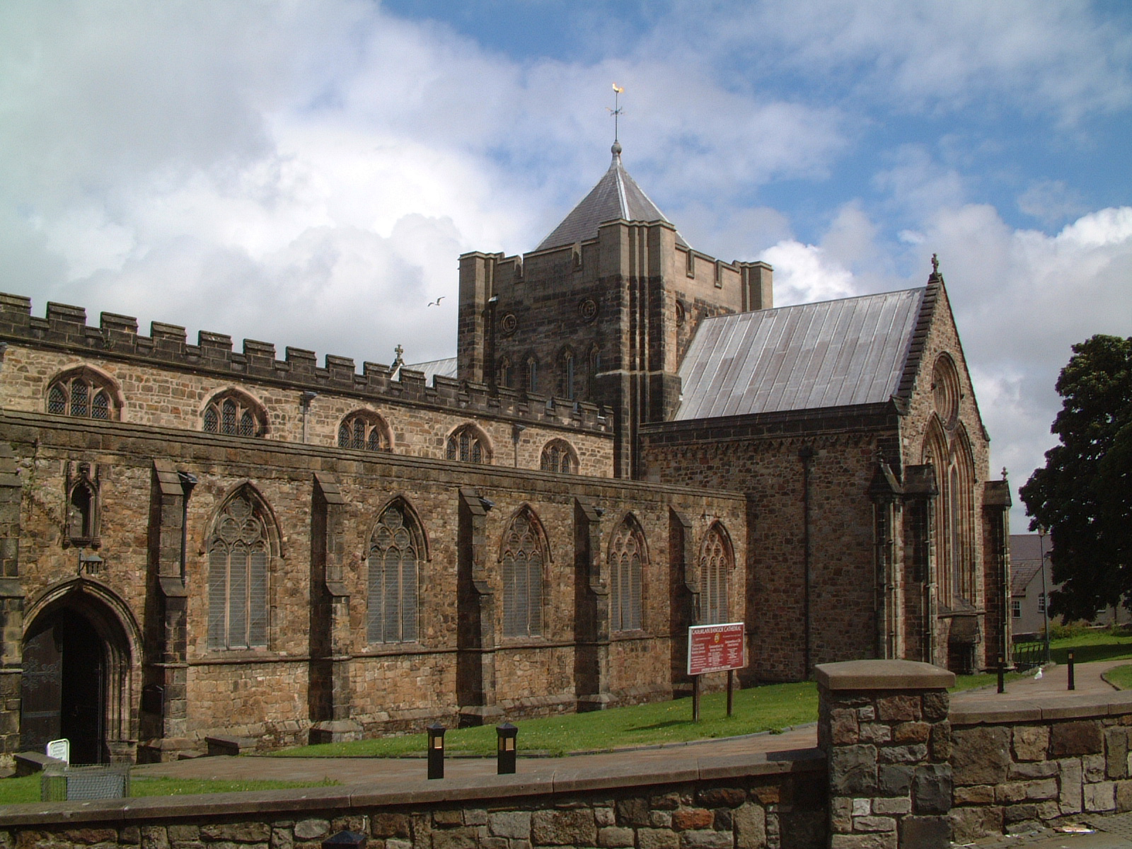 Bangor Cathedral